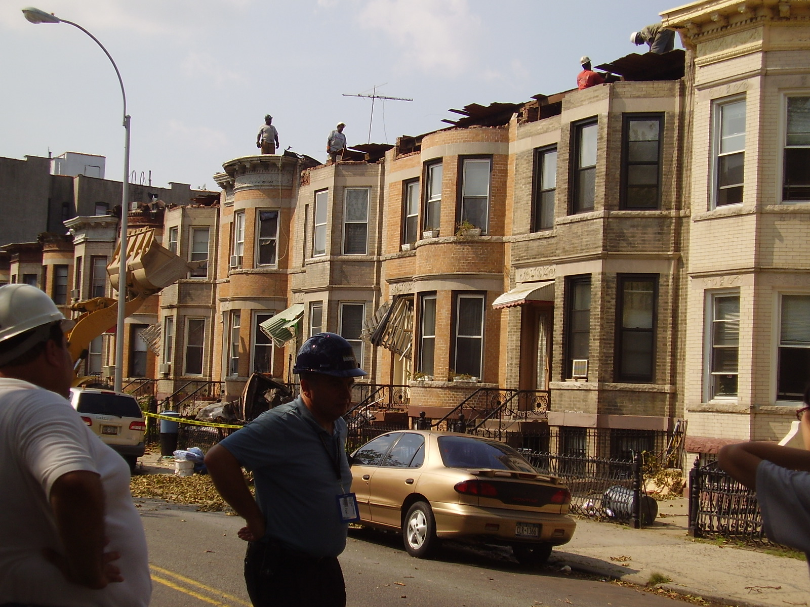 Structural damage to buildings in Brooklyn after the 2007 tornado.